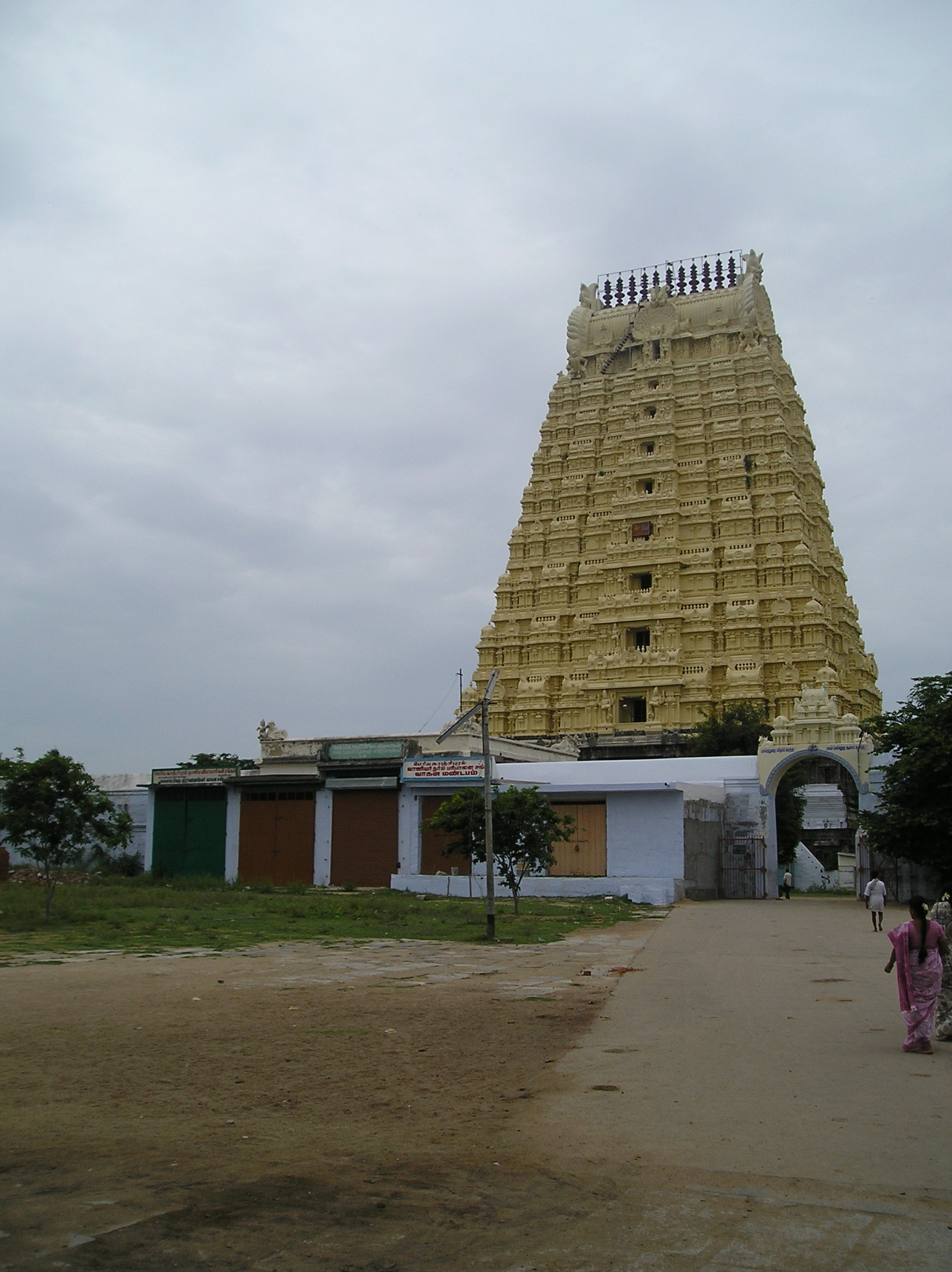 Kanchi temple